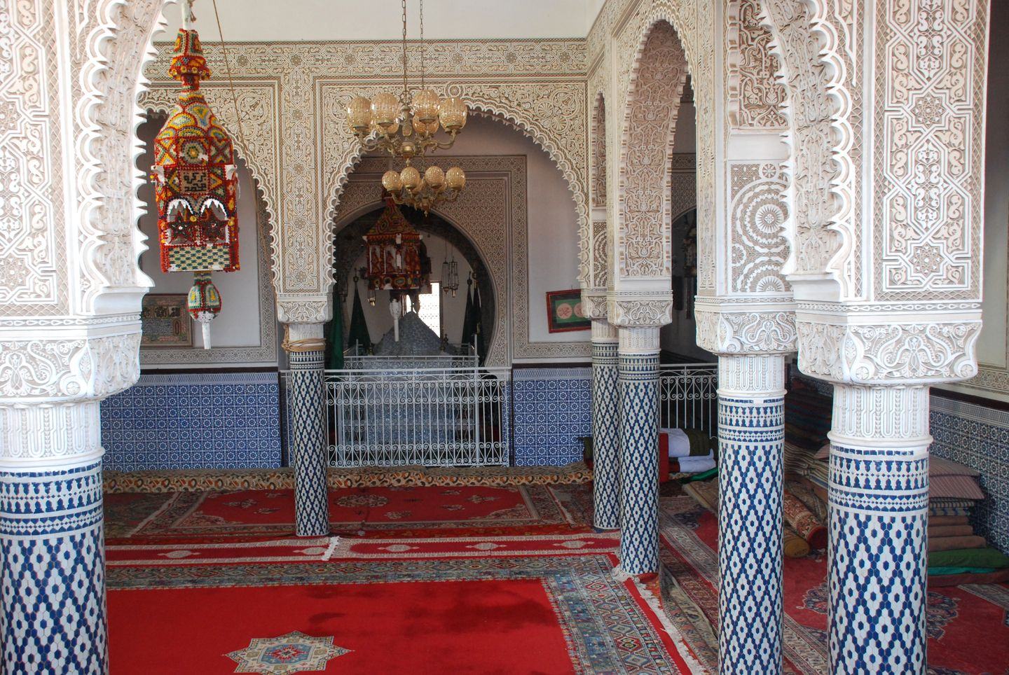 Salé, Morocco, Zaouia of Sidi Abdallah Ben Hassoun, patron saint